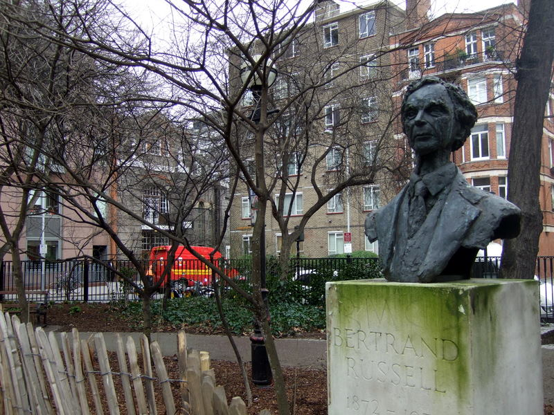 Bertrand Russell and Conway Hall Behind bust of Bertrand Russell (by Marcelle Quinton 1980) in Red Lion Square the entrance to Conway Hall can be seen with Royal Mail van parked outside.